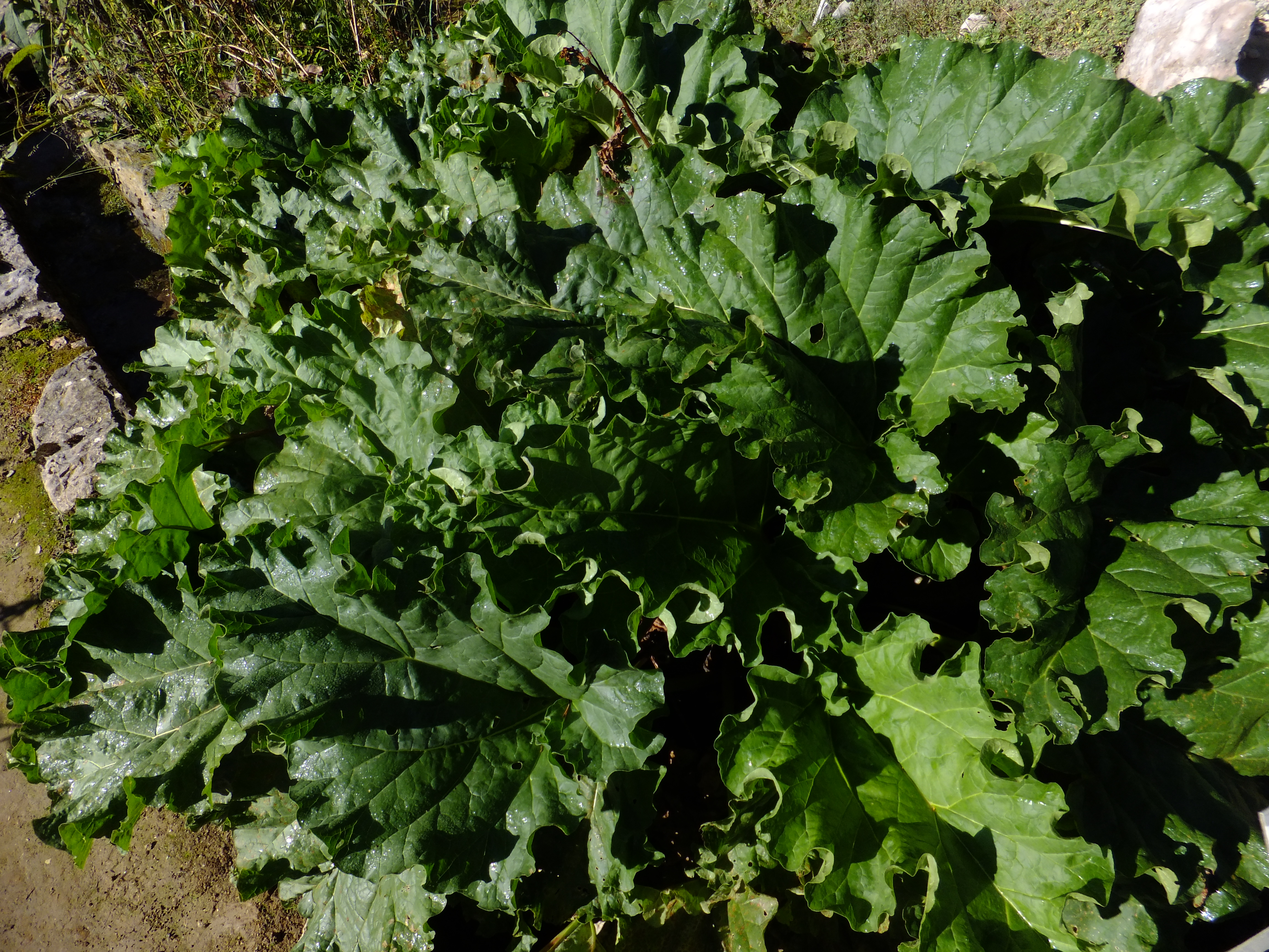 Rheum webbianum in the Giardino Botanico Alpino Viote